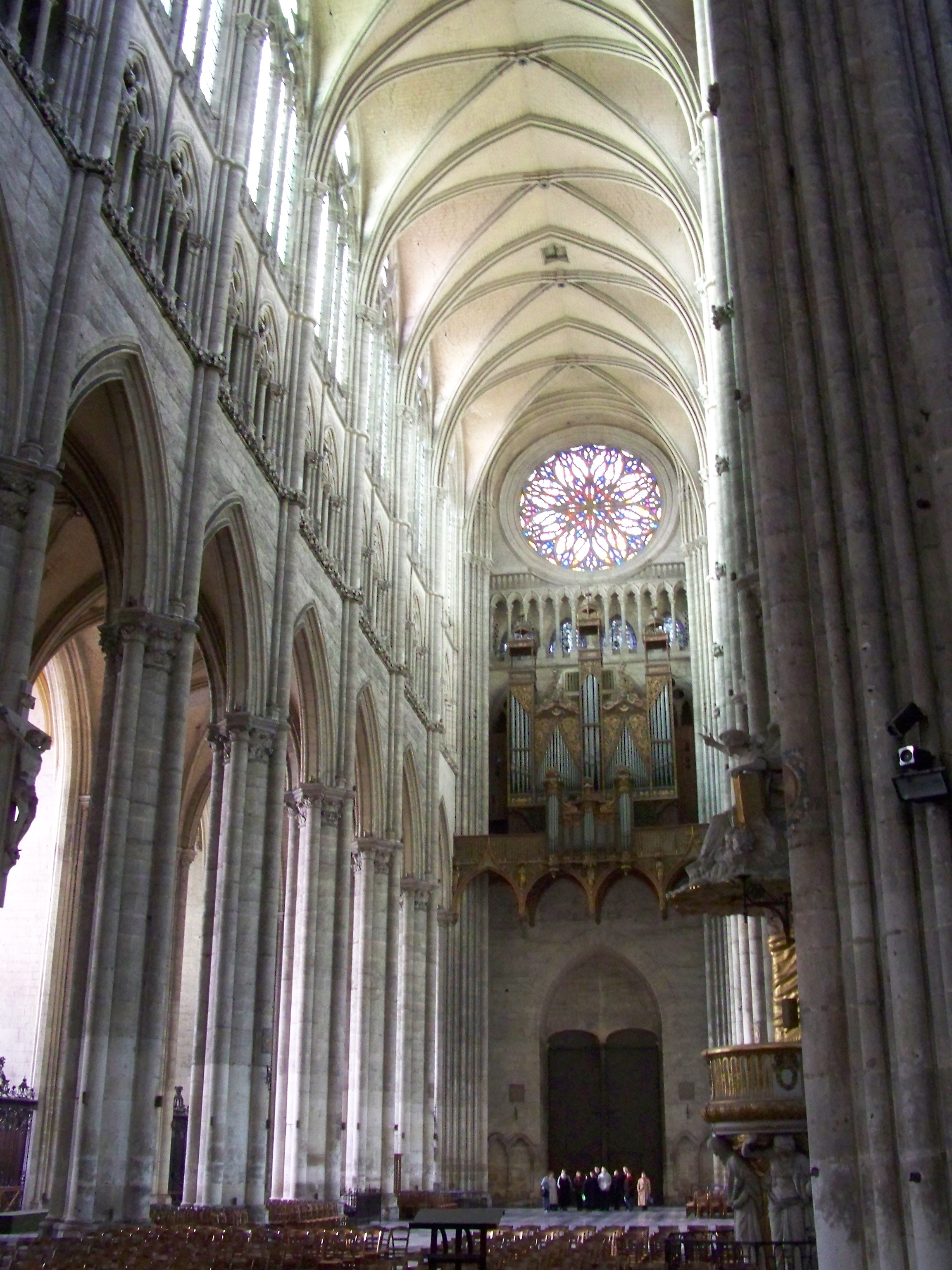 Vaults, nave, western rose window and organ of the Cathedral of Our Lady of Amiens (Amiens Cathedral) in Amiens, France.